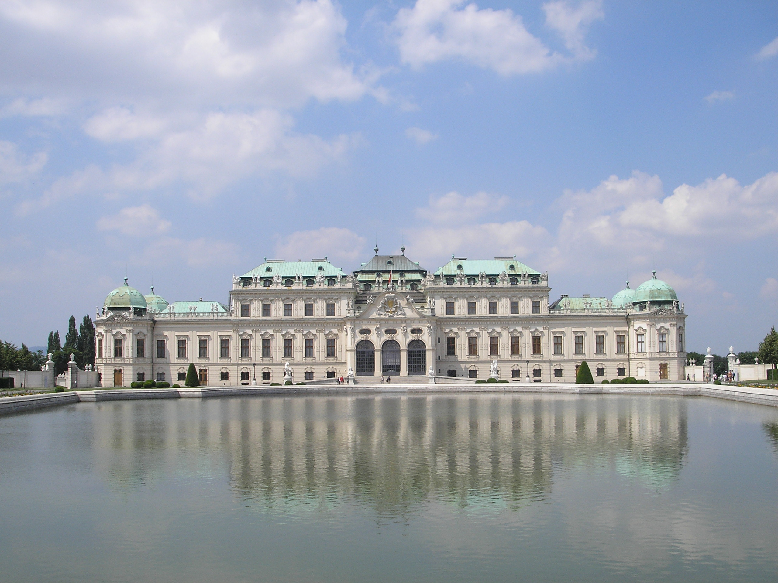 Belvedere palace in Vienna. Constructed in the baroque era for Prince Eugene of Savoy. This was his summer residence.